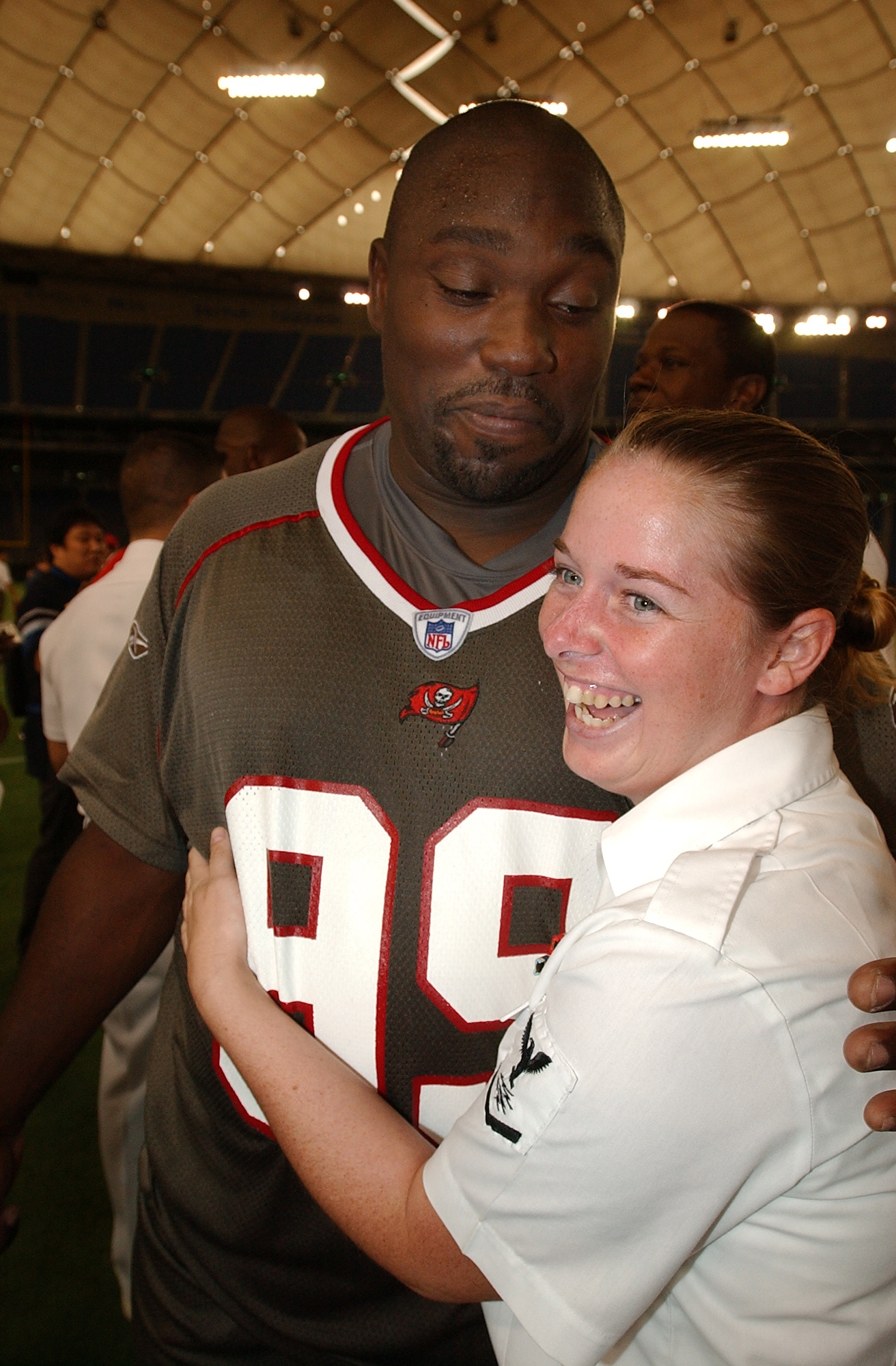 Tampa Bay Buccaneers Defensive Tackle Warren Sapp is greeted by an eager Sailor Friday at the Tokyo Dome. Personnel assigned to Carrier Air Wing Five (CVW-5) were invited to the dome to meet with the players of both the Tampa Bay Buccaneers and The New York Jets. Both teams will met in the Tokyo Bowl for a pre-season National Football League (NFL) game.